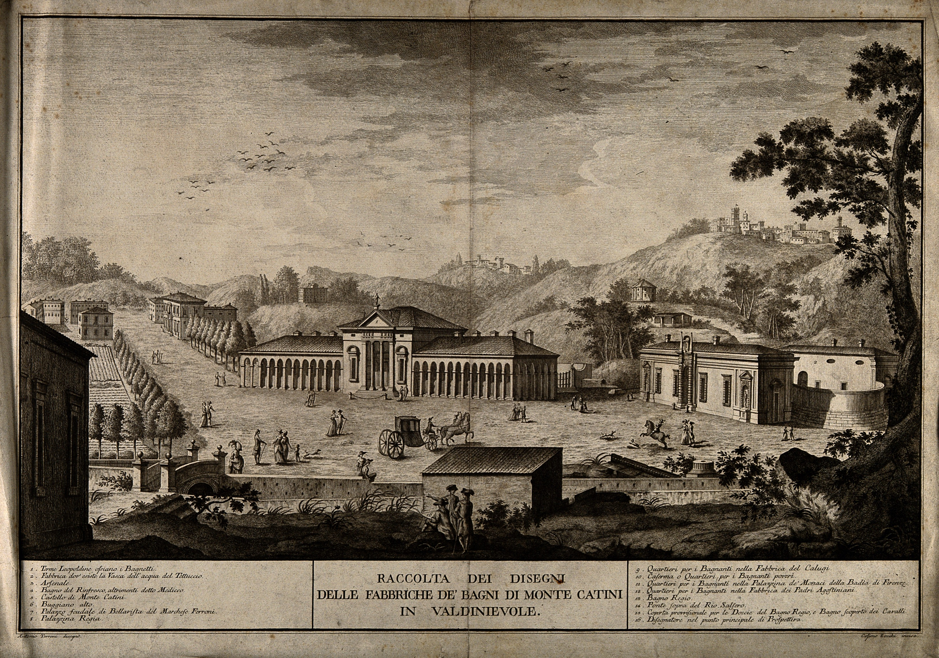 Montecatina Terme, Tuscany, Italy. Etching by C. Zocchi after A. Terreni. Iconographic Collections Keywords: Cosimo Zocchi; terreni, antonio fl. 18th cent; tuscany; montecatini terme; Antonio Terreni; zocchi, cosimo fl. 18th cent; Health; bath